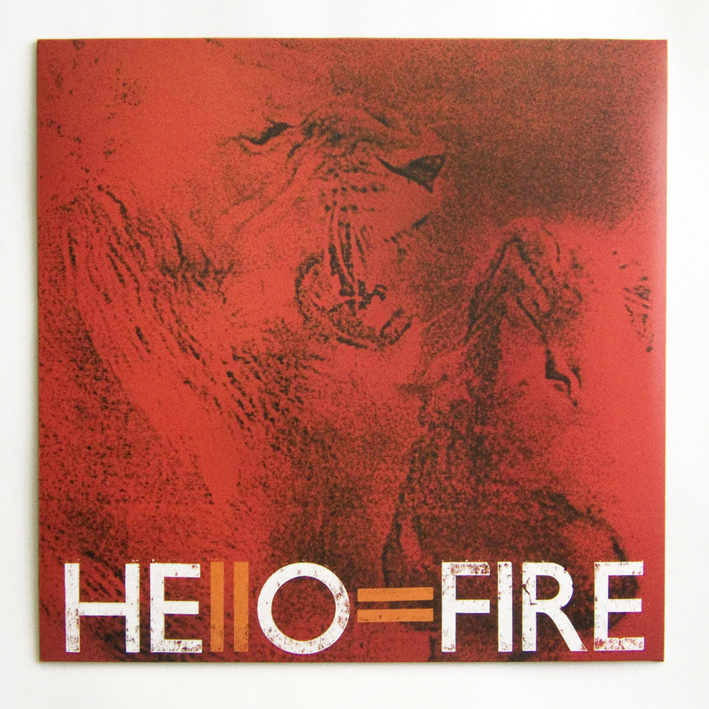 The artwork for Dean Fertita's debut solo album.